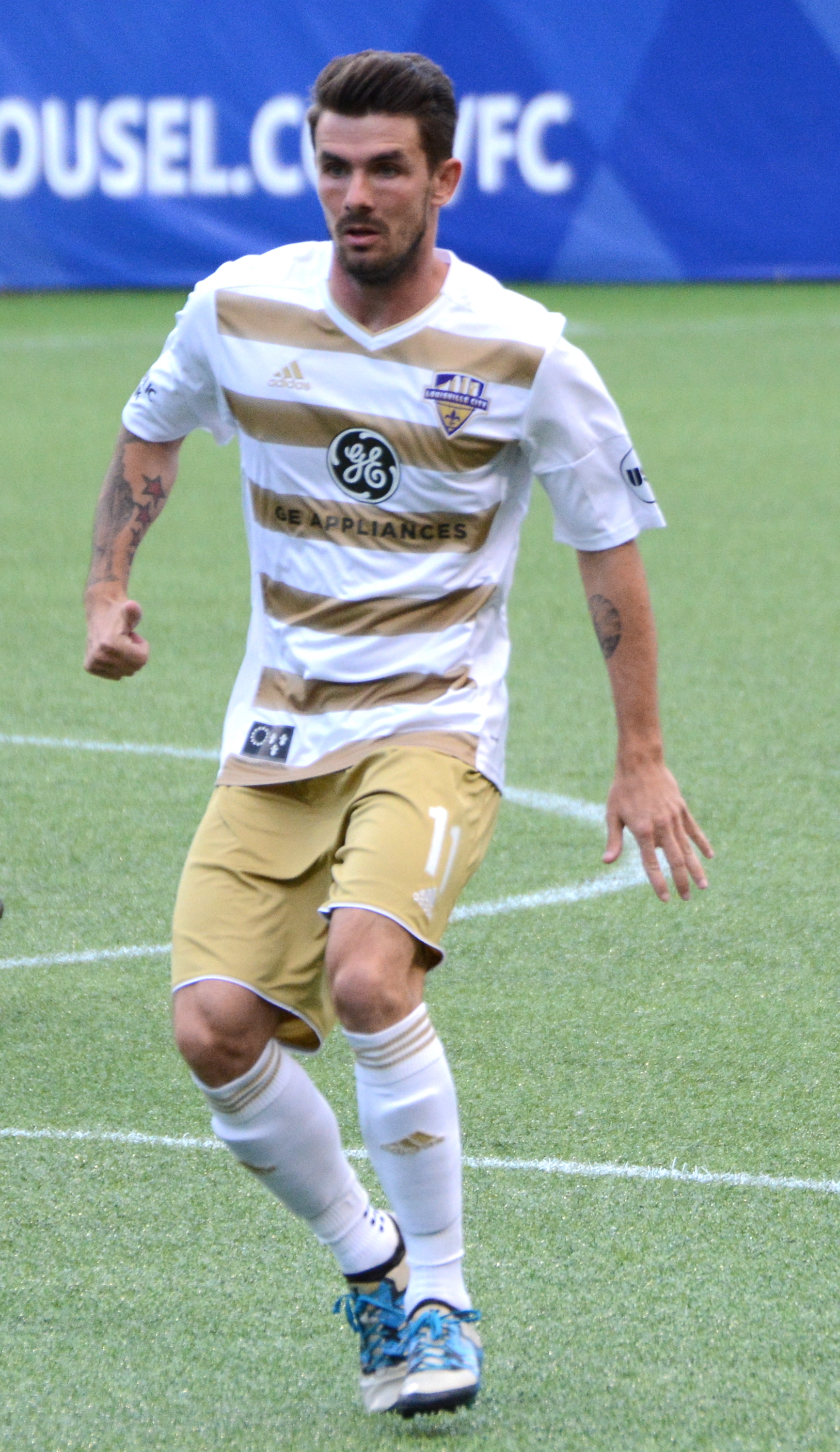 Aodhan Quinn, Niall McCabe, Oscar Jimenez Taken at a Lamar Hunt U.S. Open Cup match between FC Cincinnati and Louisville City FC at Nippert Stadium in Cincinnati, Ohio on May 31, 2017.